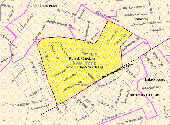 U.S. Census 2000 reference map for Russell Gardens, New York